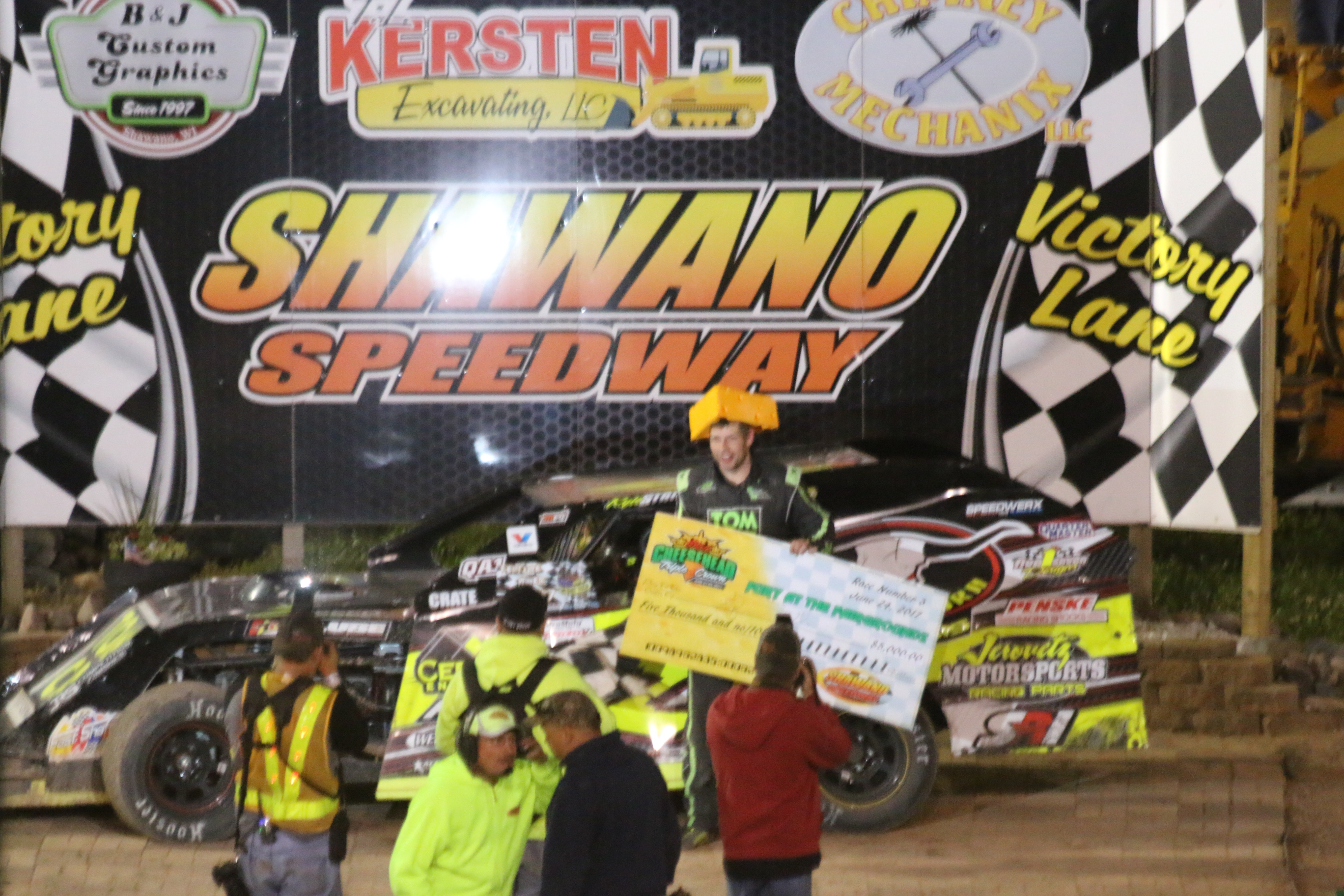 Kyle Strickler wins in his IMCA Modified at Shawano Speedway.